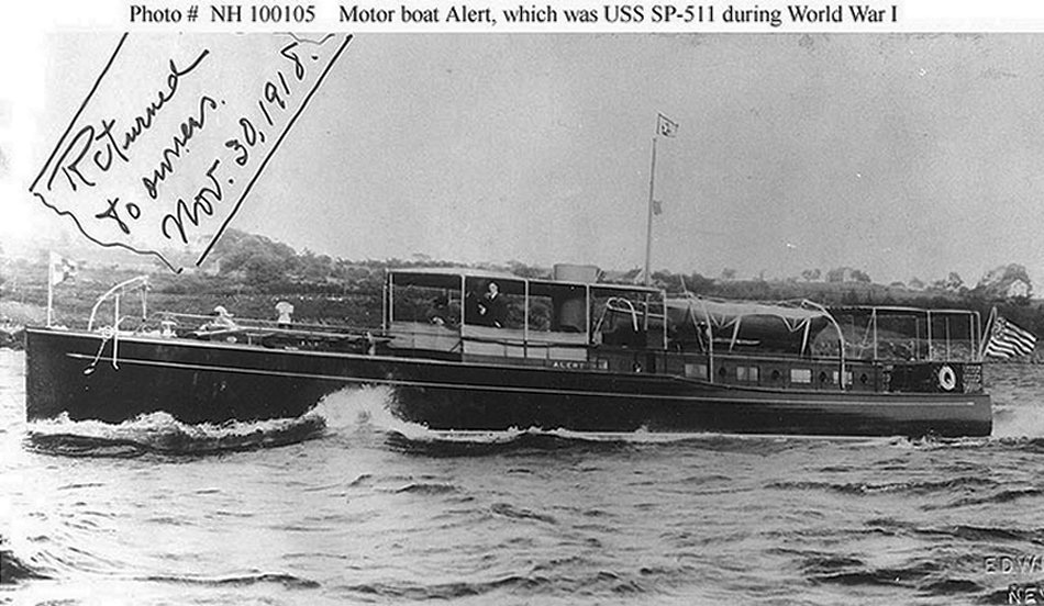 Photographed prior to World War I by Edwin Levick, New York City. US Navy Photo NH 100105